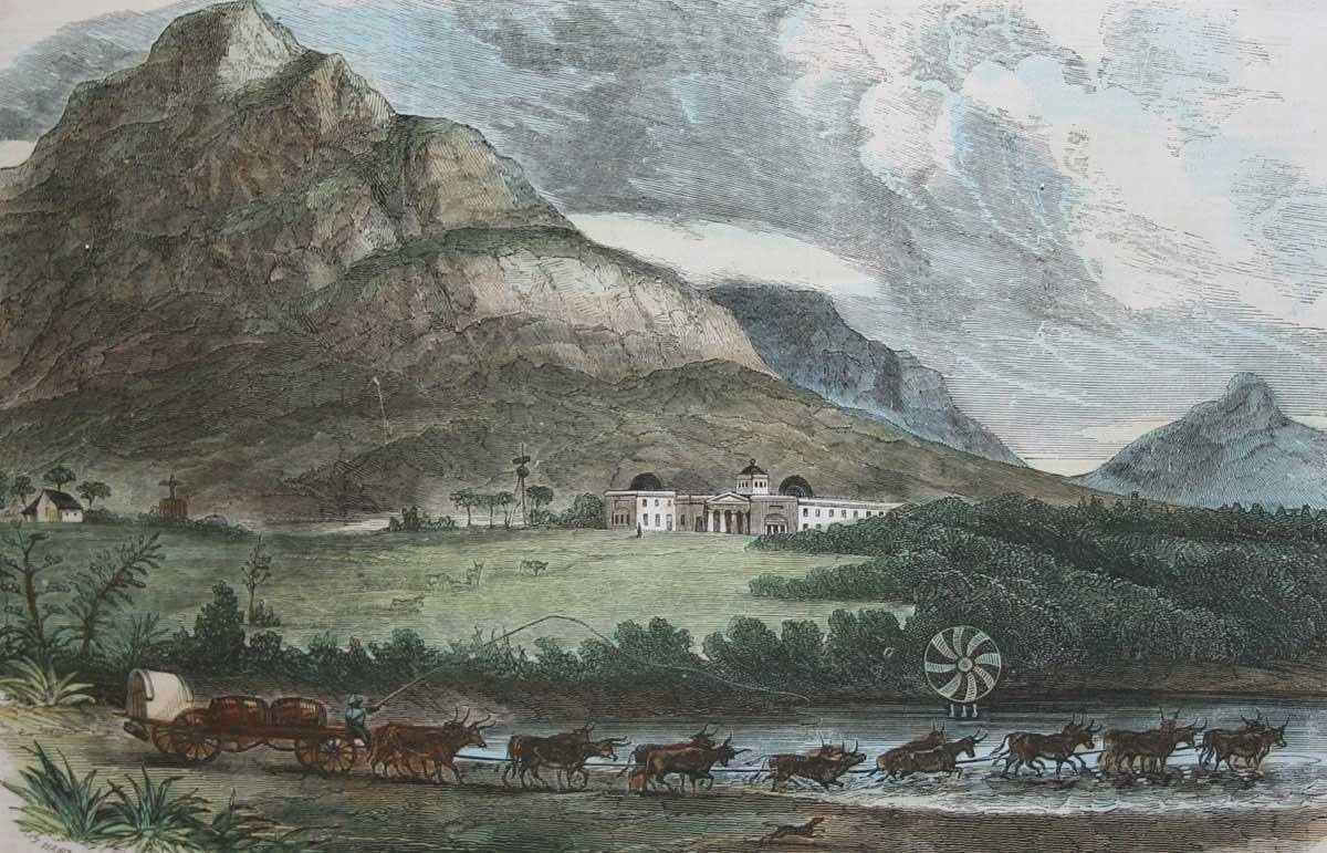 South African Astronomical Observatory, with ox wagon in the foreground and Devil's Peak in the background, Illustrated London News, 21 March 1857/Ian Glass